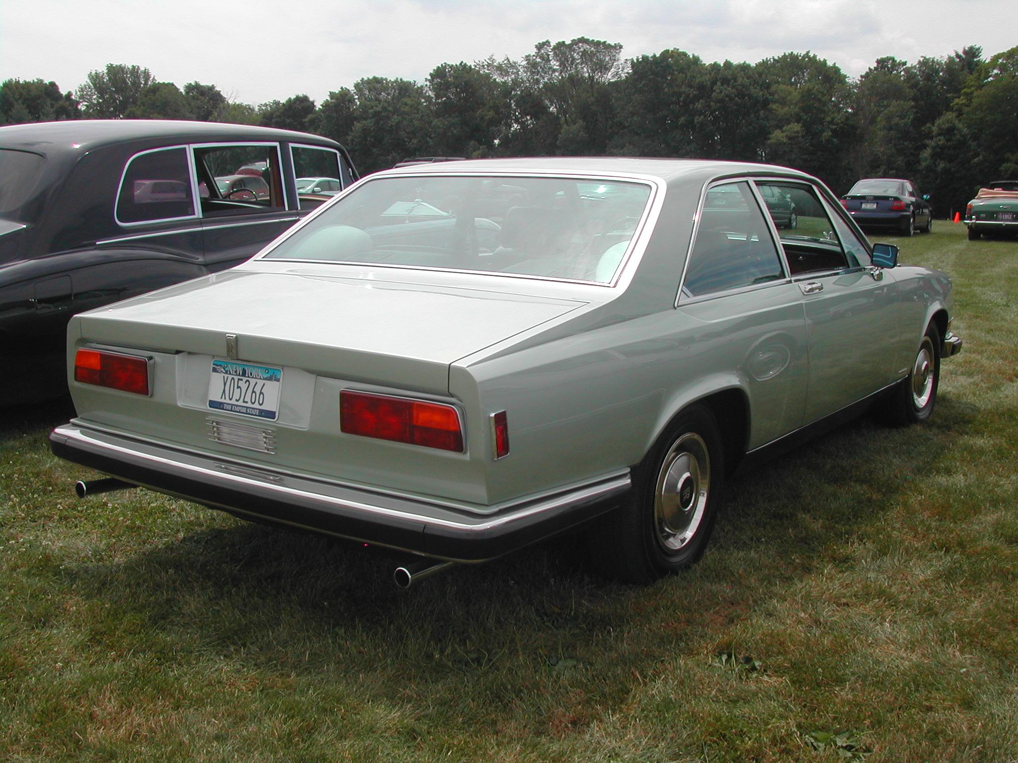 1982 Rolls-Royce Camargue Photographed by Jagvar at the Bonhams & Butterfields Auction in Darien, Connecticut on July 29, 2005.